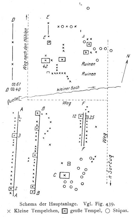 Map of the ruins of Shorchuk from Albert Grünwedel: "Altbuddhistische Kultstätten in Chinesisch-Turkistan, Bericht über archäologische Arbeiten von 1906 bis 1907 bei Kucha, Qarašahr und in der Oase Turfan". Berlin, 1912. X: little temple, boxed X: large temple, o: stupas